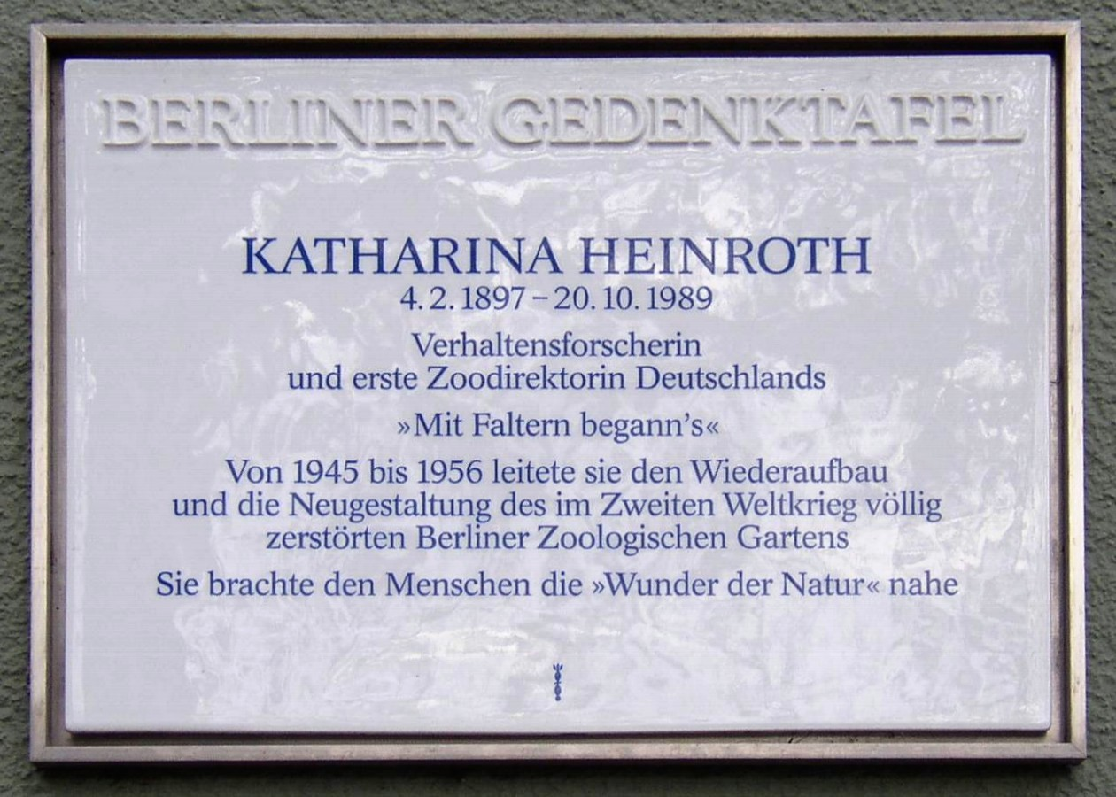 Berlin memorial plaque for Katharina Heinroth in Berlin-Tiergarten, Germany